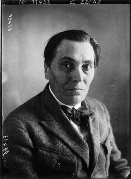 Fernand Désiré Alfred Després (13 April 1897 – 14 February 1949) was a French shoemaker, anarchist, journalist and later a Communist activist.